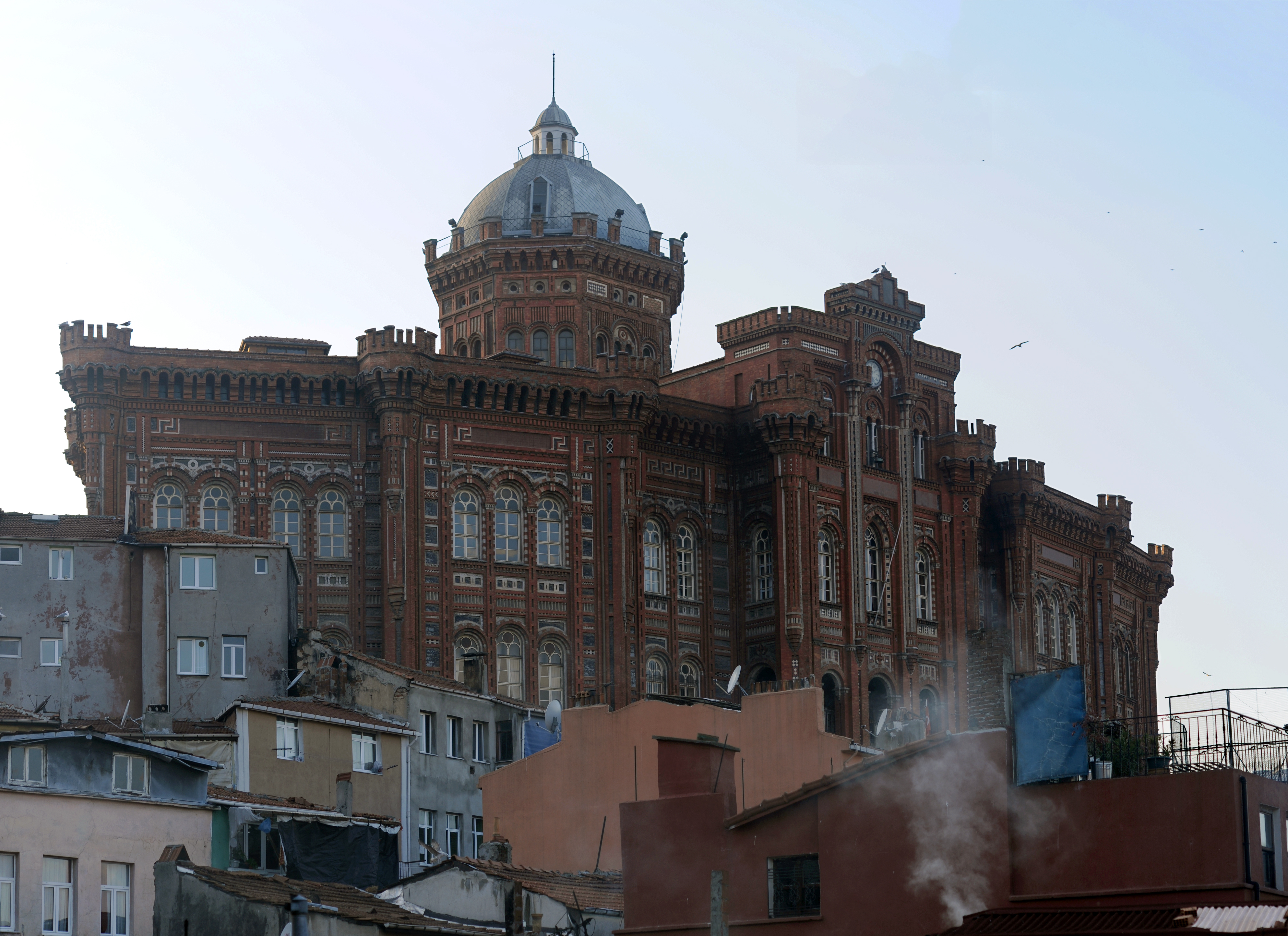 Phanar Greek Orthodox College Istanbul, Turkey.